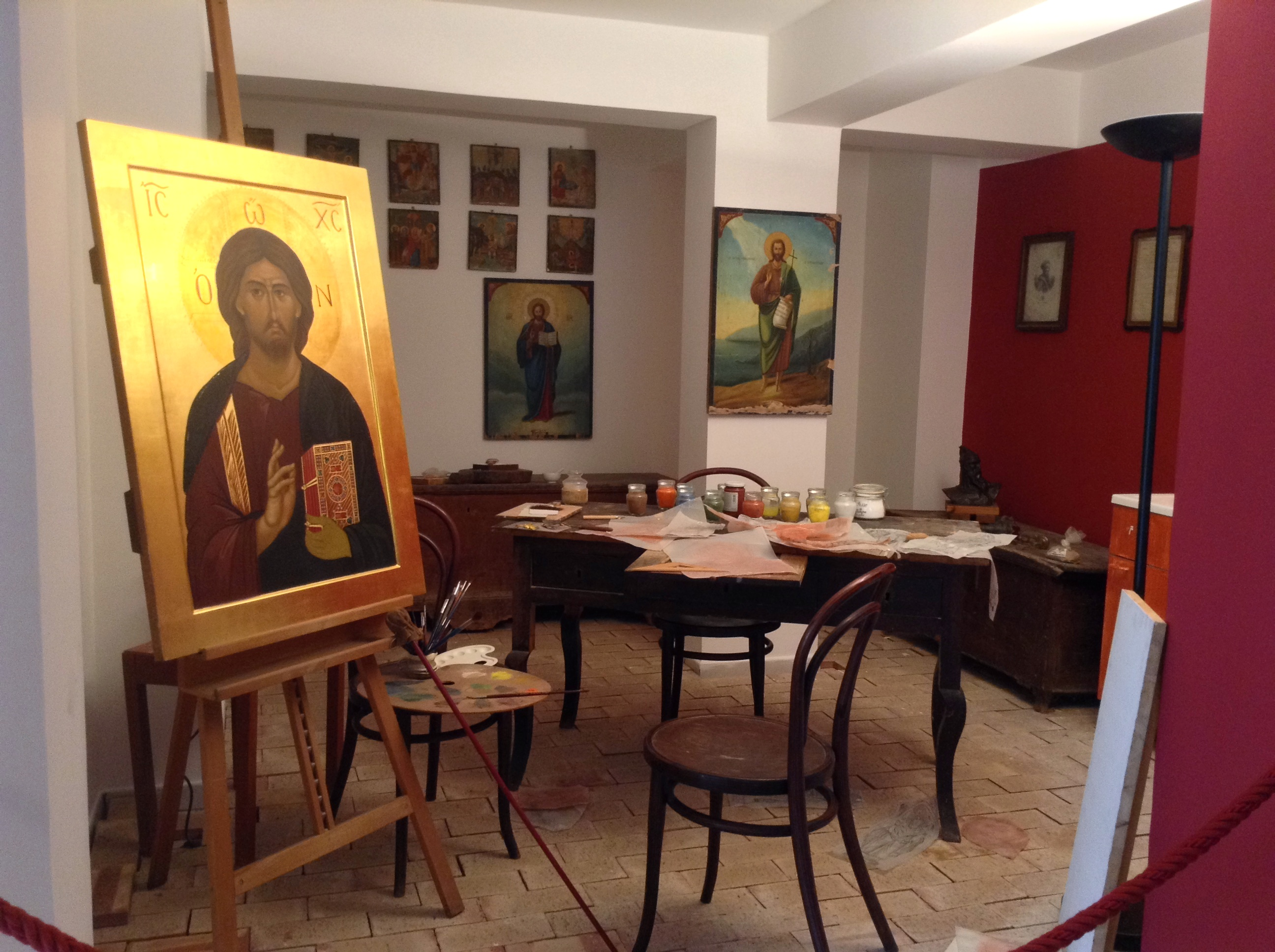 Work room of a icon writer